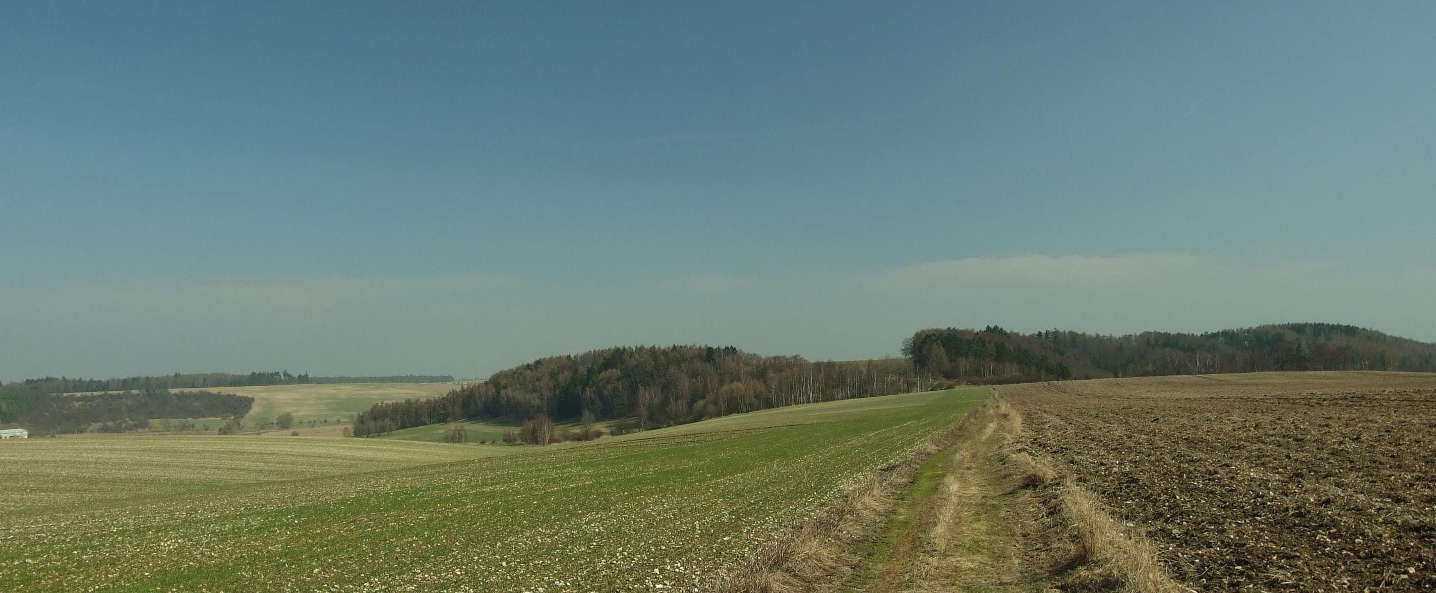 Landcape around the village of Kroučová - Rakovník District. Central Bohemian Region, CZ